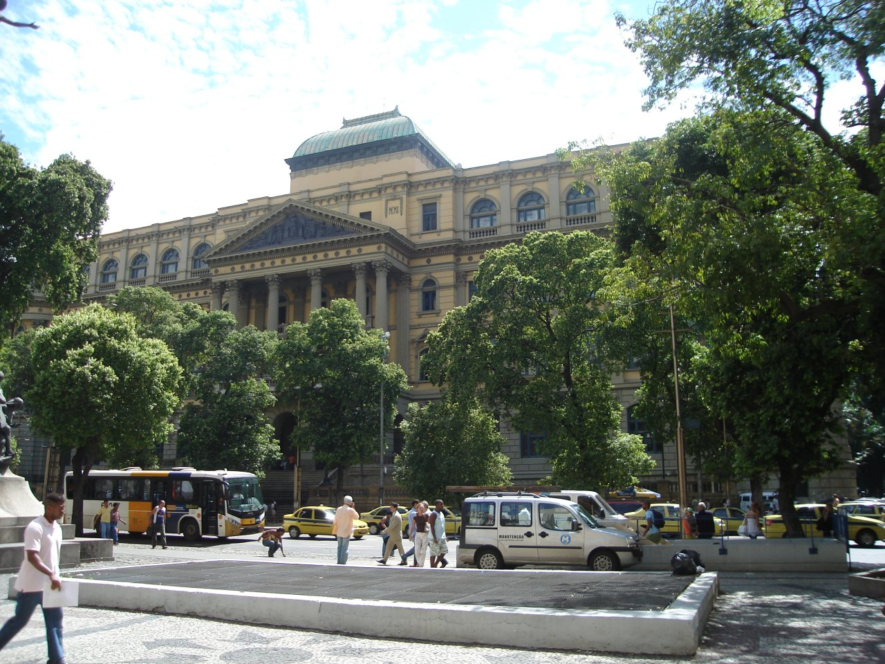 National Library in Rio de Janeiro, Brazil